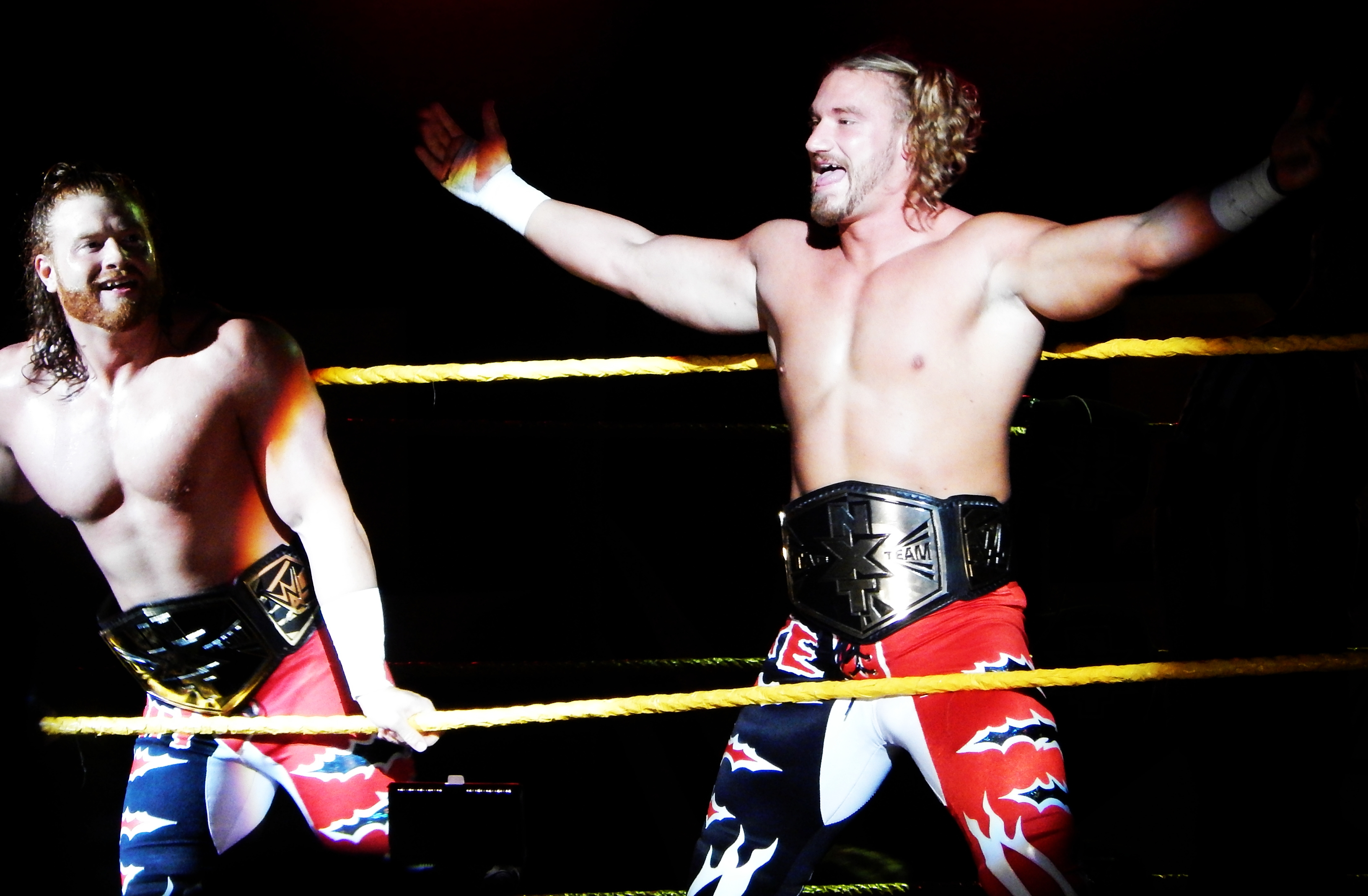 Blake & Murphy at a WWE NXT event in May 2015.